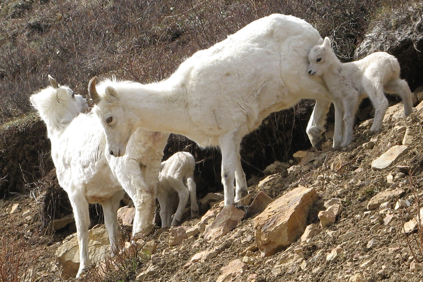 A ewe and lamb group in Denali National Park